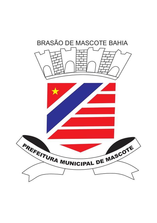 Brasão de Mascote